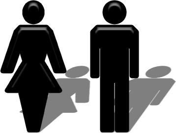 tourism map public toilets or rest rooms symbol